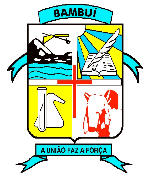 Brasão do município de Bambuí-MG